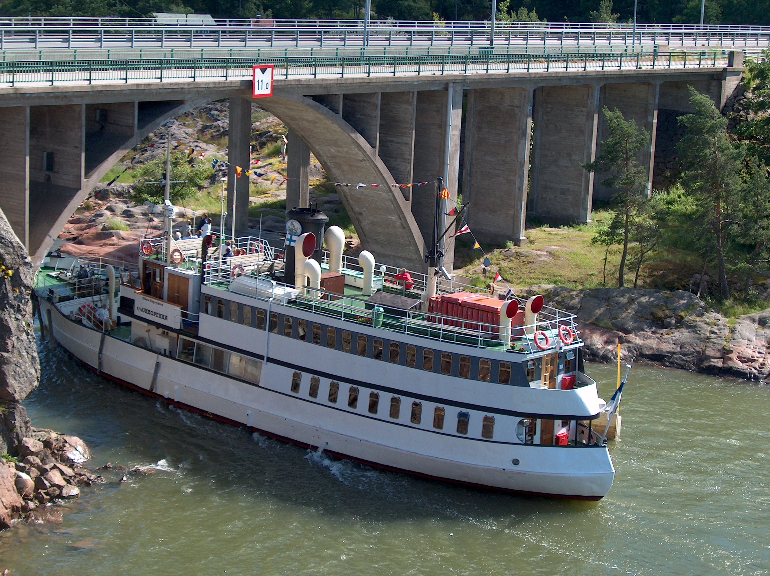 SS Ukkopekka going under the Ukkopekka bridge in Naantali, Finland